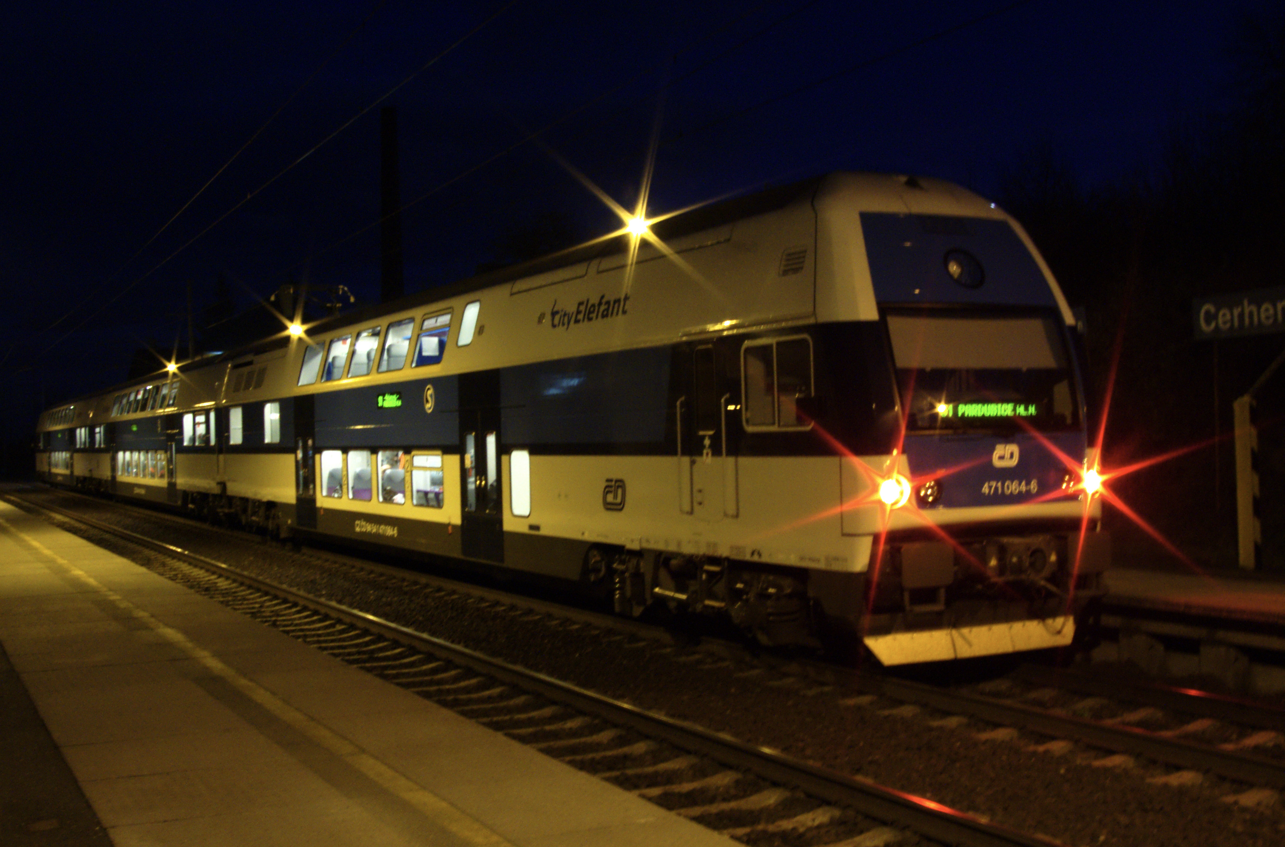 City Elephant suburban train in Cerhenice, Central Bohemian Region, CZ This photograph was taken within the scope of the third year of the 'Czech Municipalities Photographs' grant.